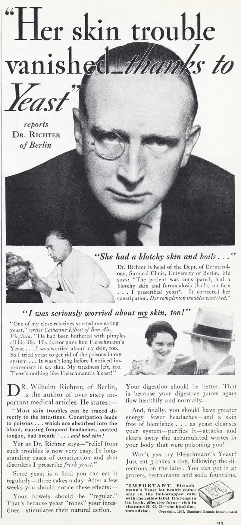 A 1931 magazine advertisement for Fleischmann's Yeast. The man identified as Dr. Richter is